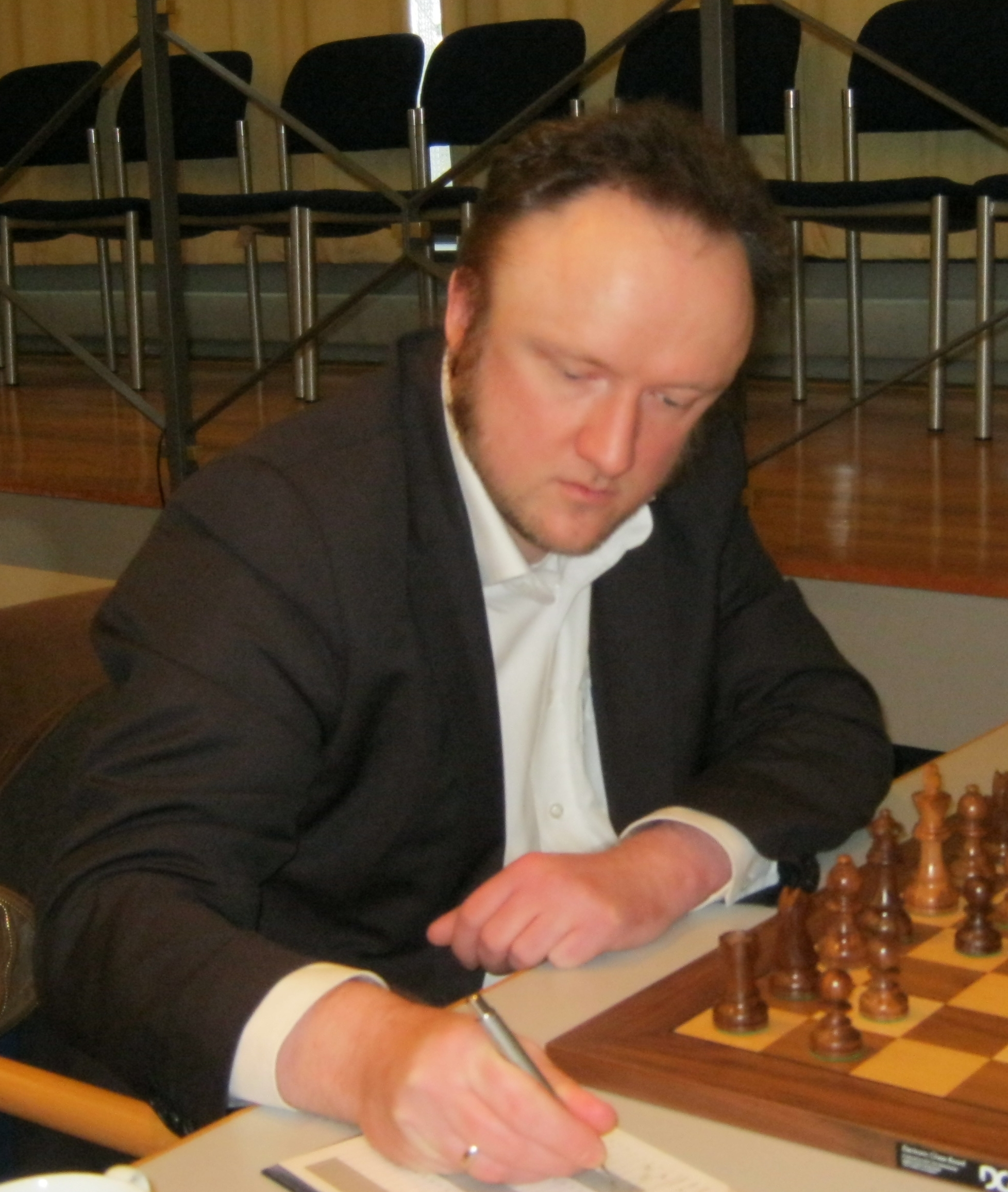 Daniel Hausrath, chess player from Germany